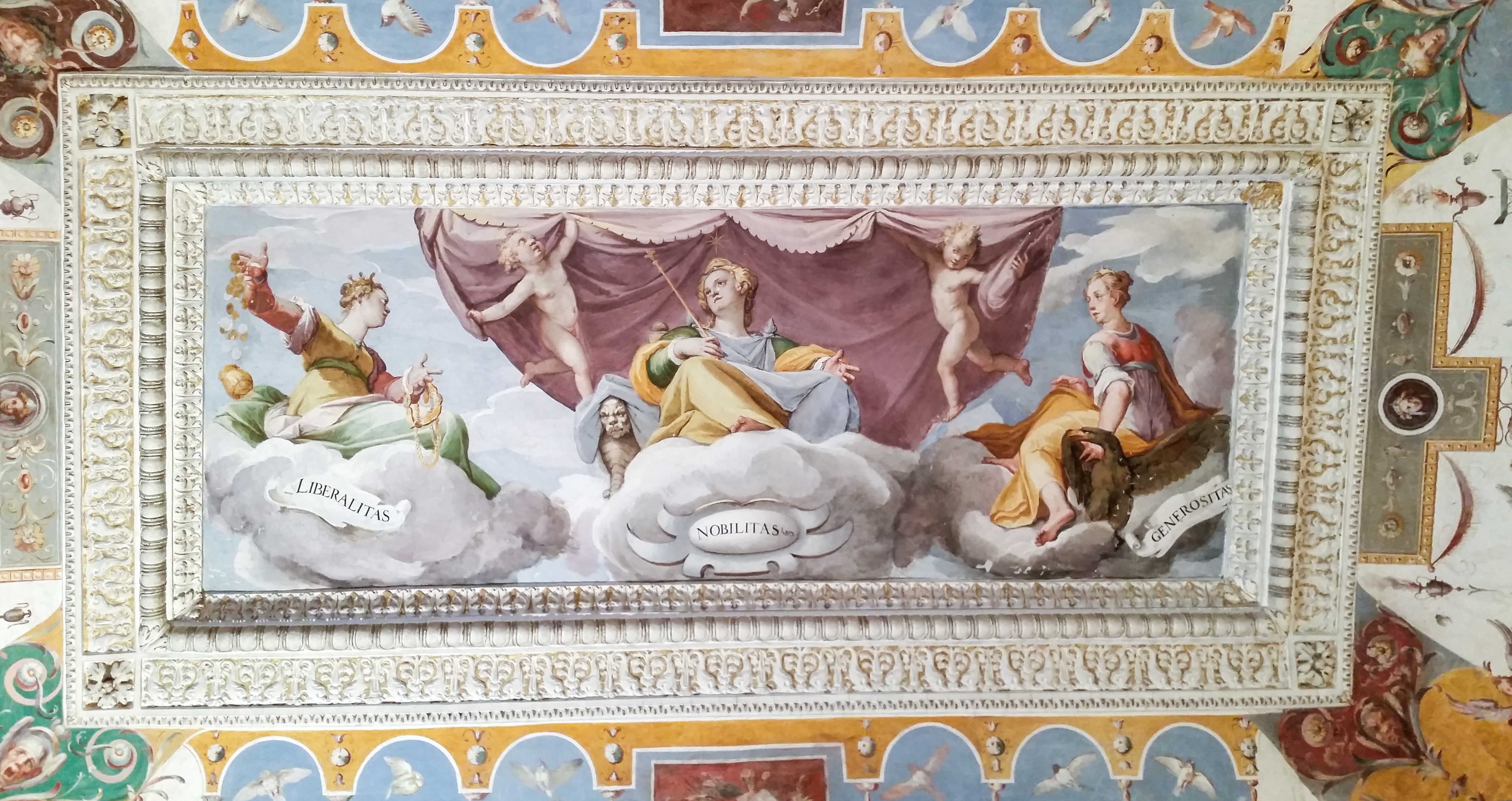 Ceiling fresco in the Villa d'Este